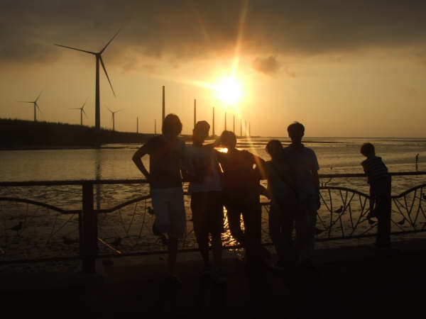 Westcoast of Taiwan near Cingshuei, Taichung